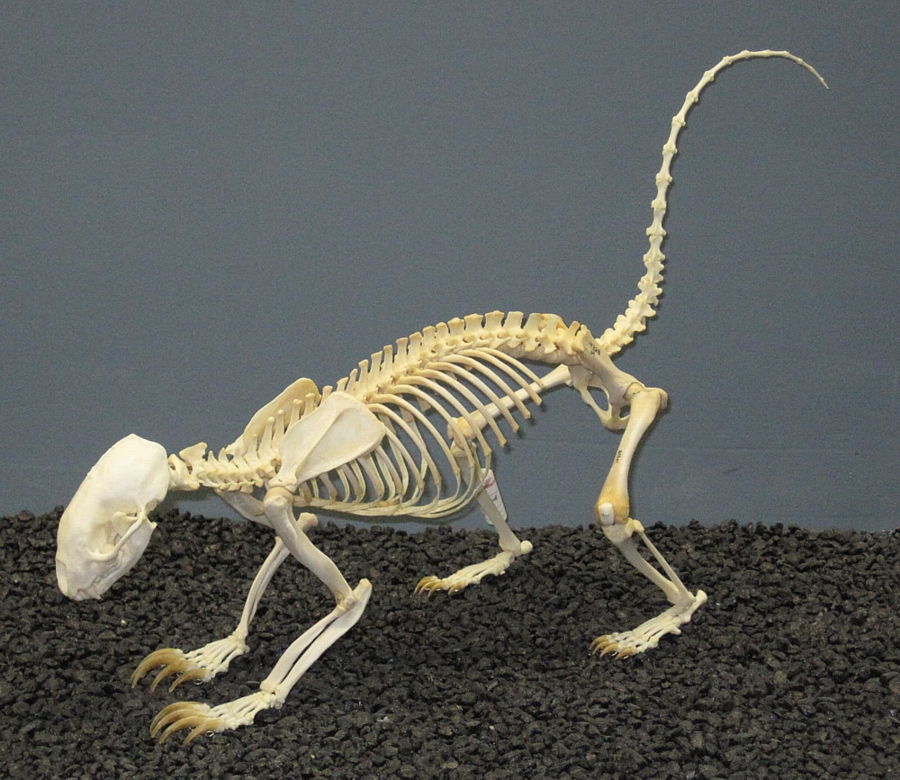 A Hog-nosed Skunk Skeleton on Display at The Museum of Osteology.